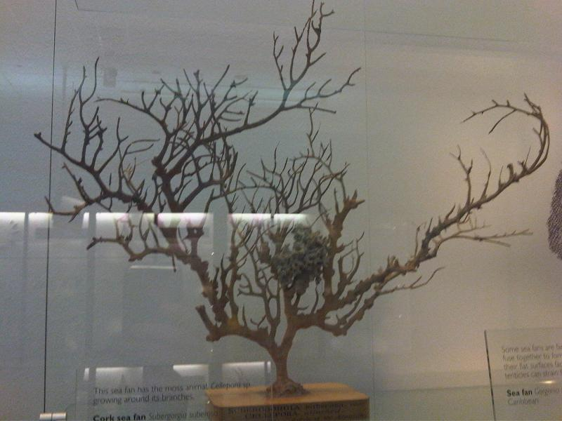 Subergorgia suberosa at the Natural History Museum in London, England.